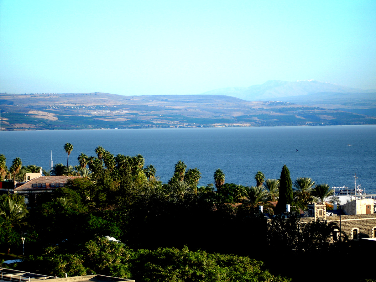 The view from Tiberias, Galilee, Israel, northward across the Sea of Galilee. The snowy peak in the distance is Mount Hermon.